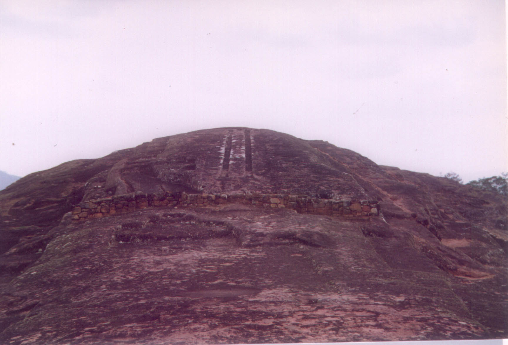 El Fuerte. Pre-Inca temple near Samaipata,Bolivia.